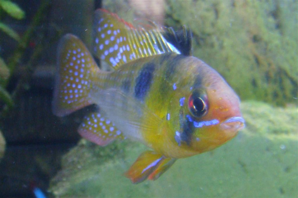 Blue Ram – Mikrogeophagus ramirezi